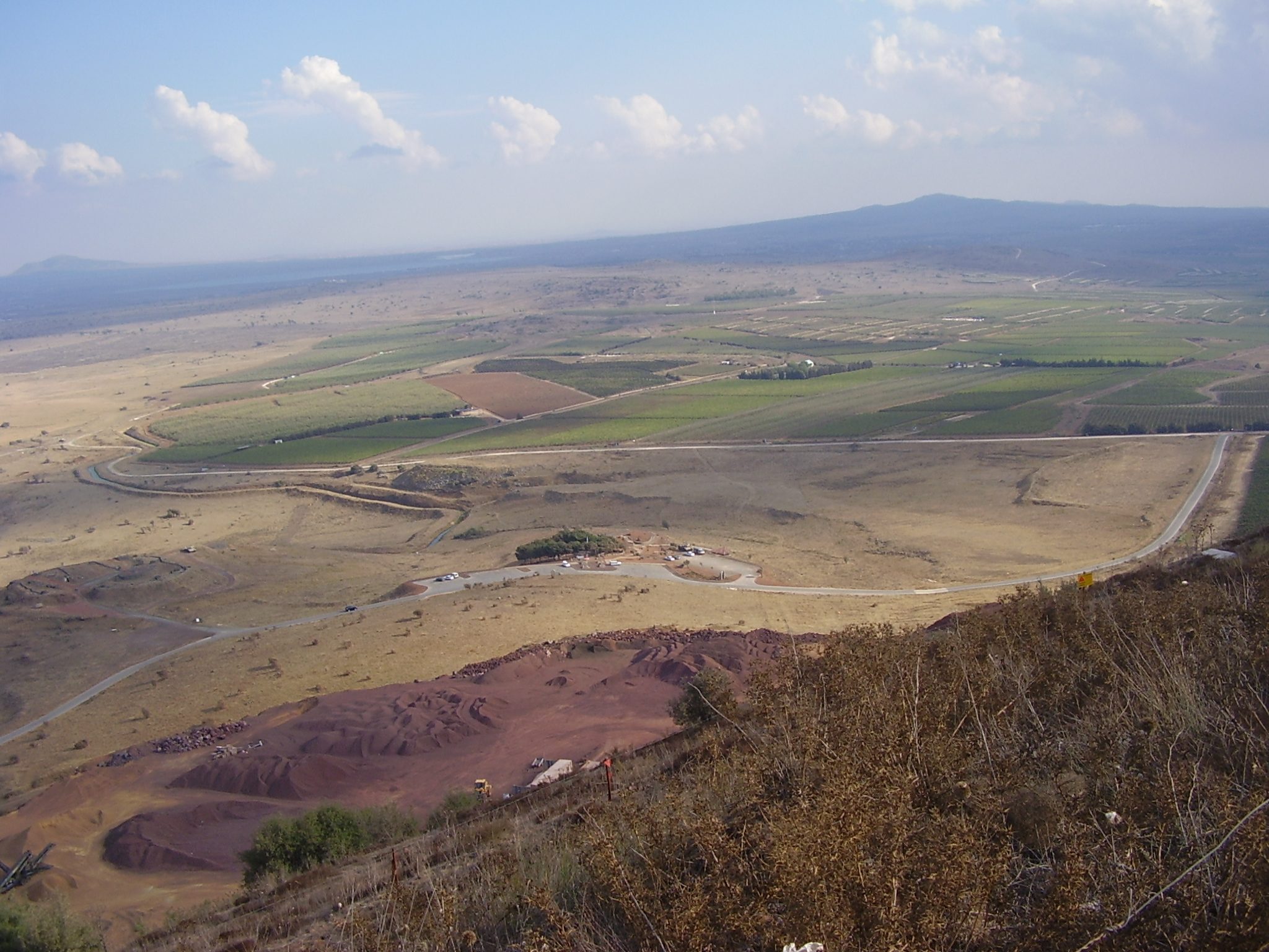 valley of tears, from mount hermonit, golan heights מבט מהר חרמונית על עמק הבכא